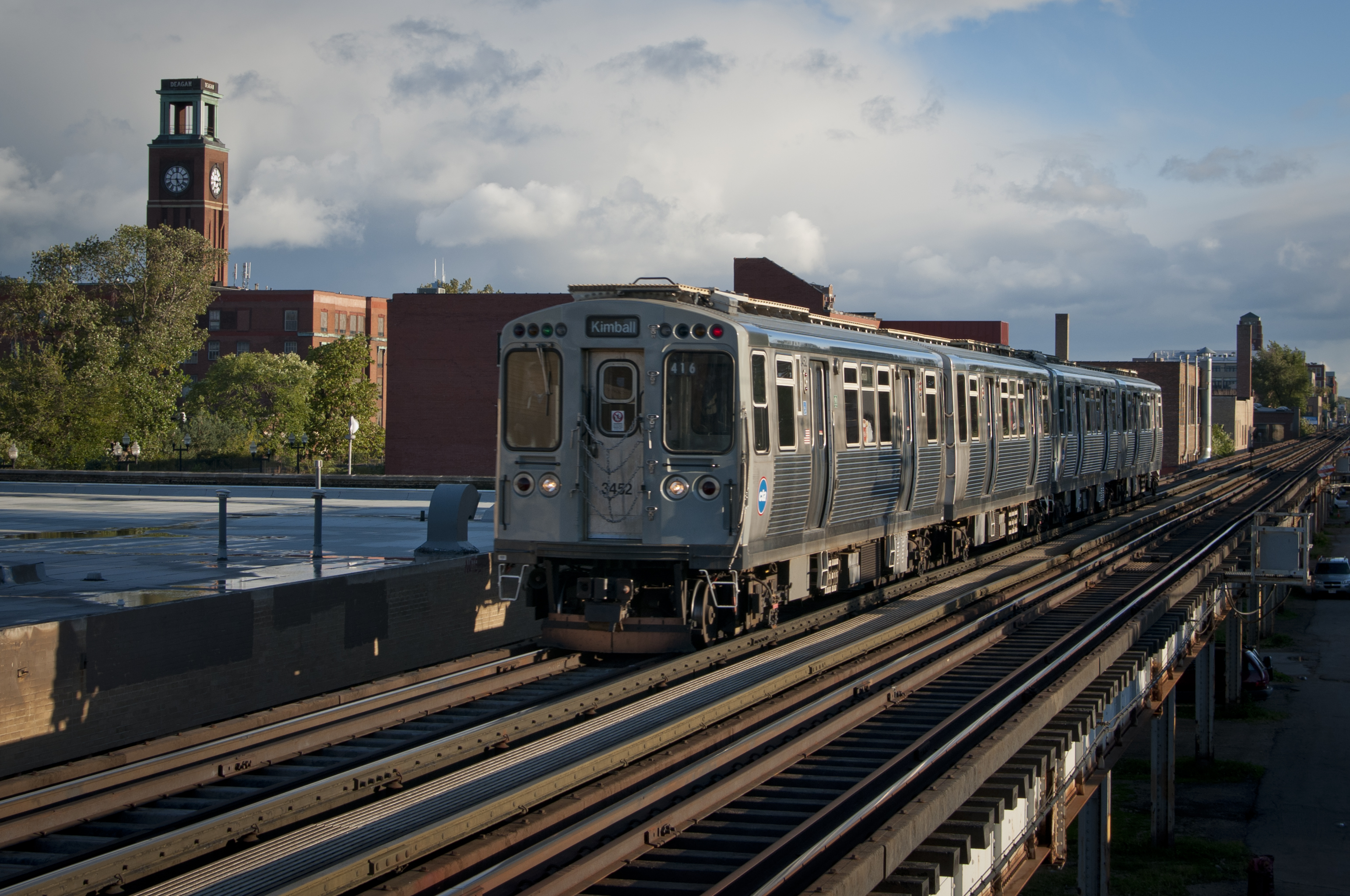 CTA Brown Line Train in Ravenswood